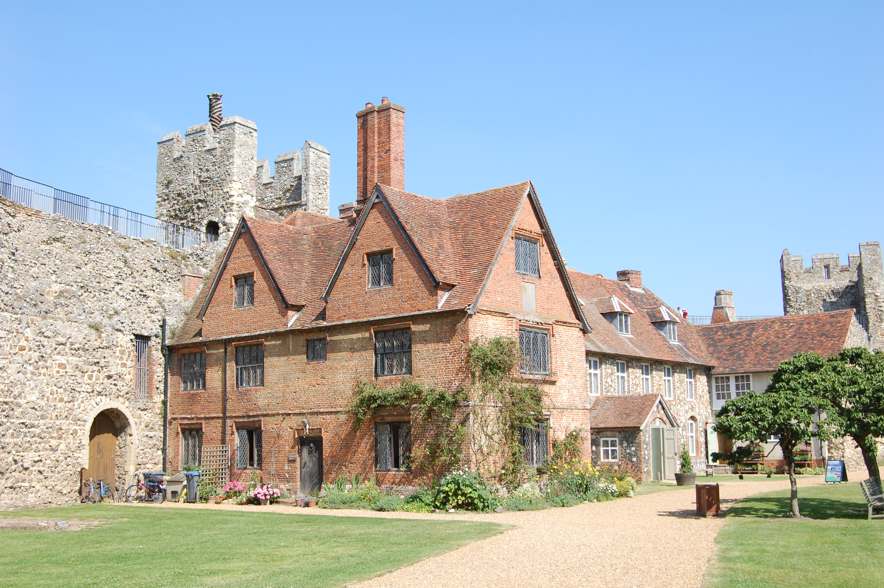 A building within Framlingham Castle that was once used as a poor house, Suffolk, England.